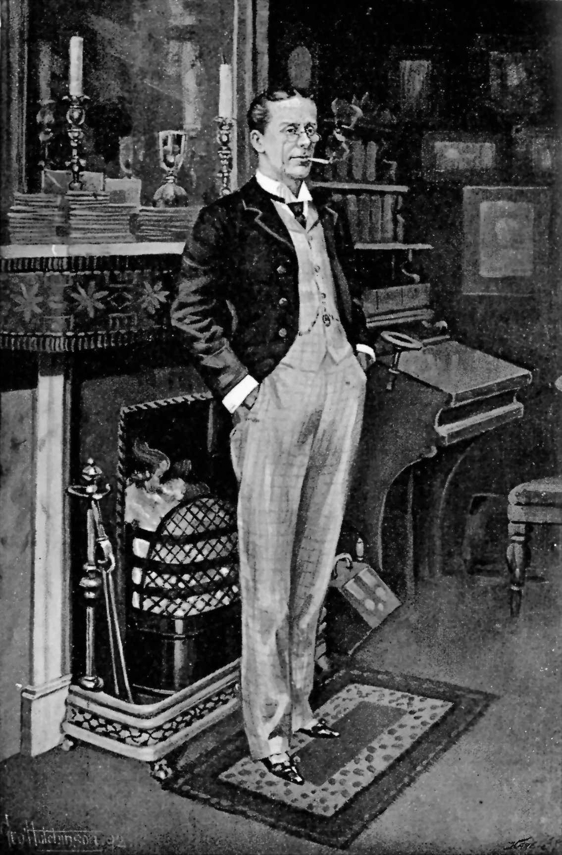 George Grossmith (1847-12-09 – 1912-03-01), English comedian, writer, actor, and singer